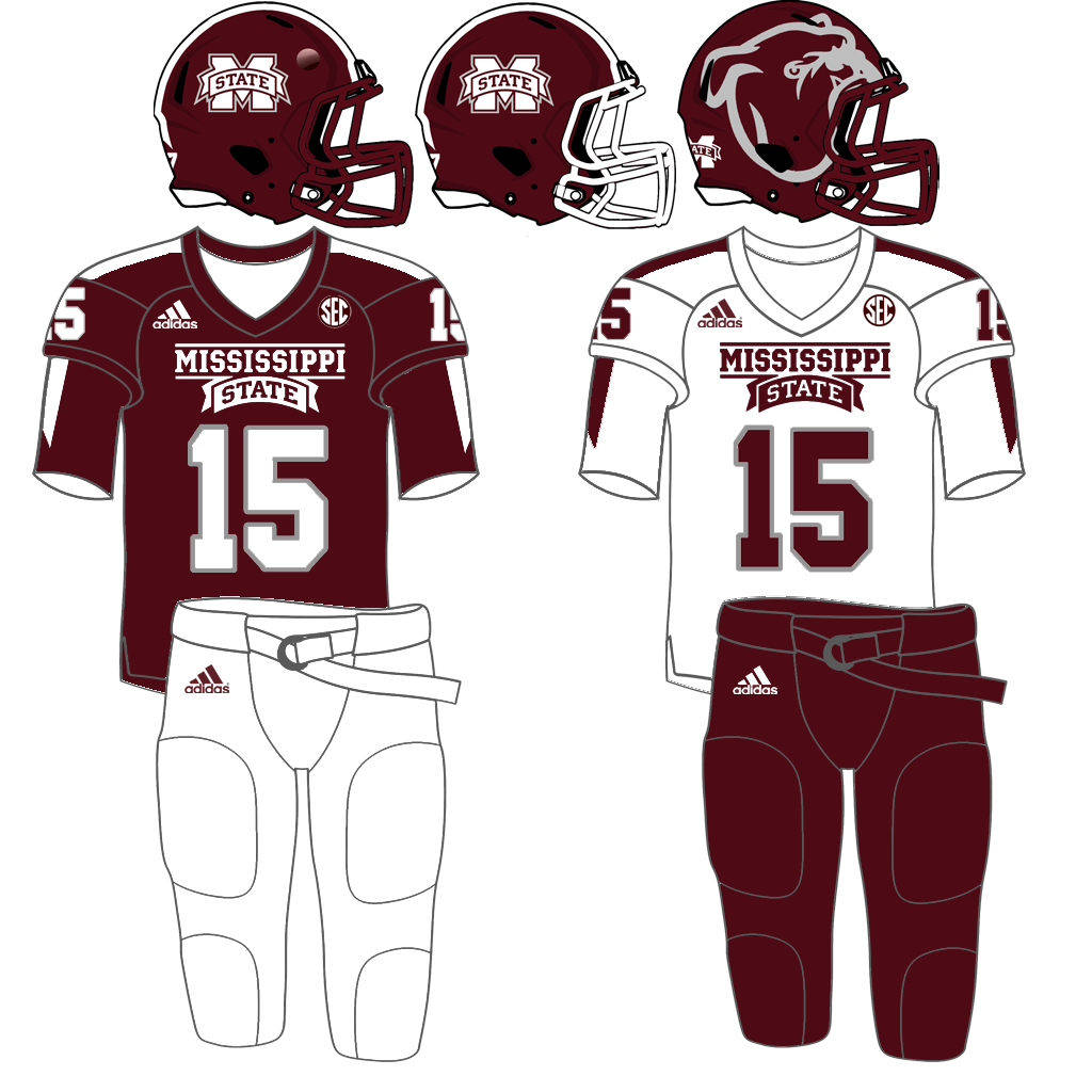 The football uniforms the Mississippi State Bulldogs wore from 2012 to 2014